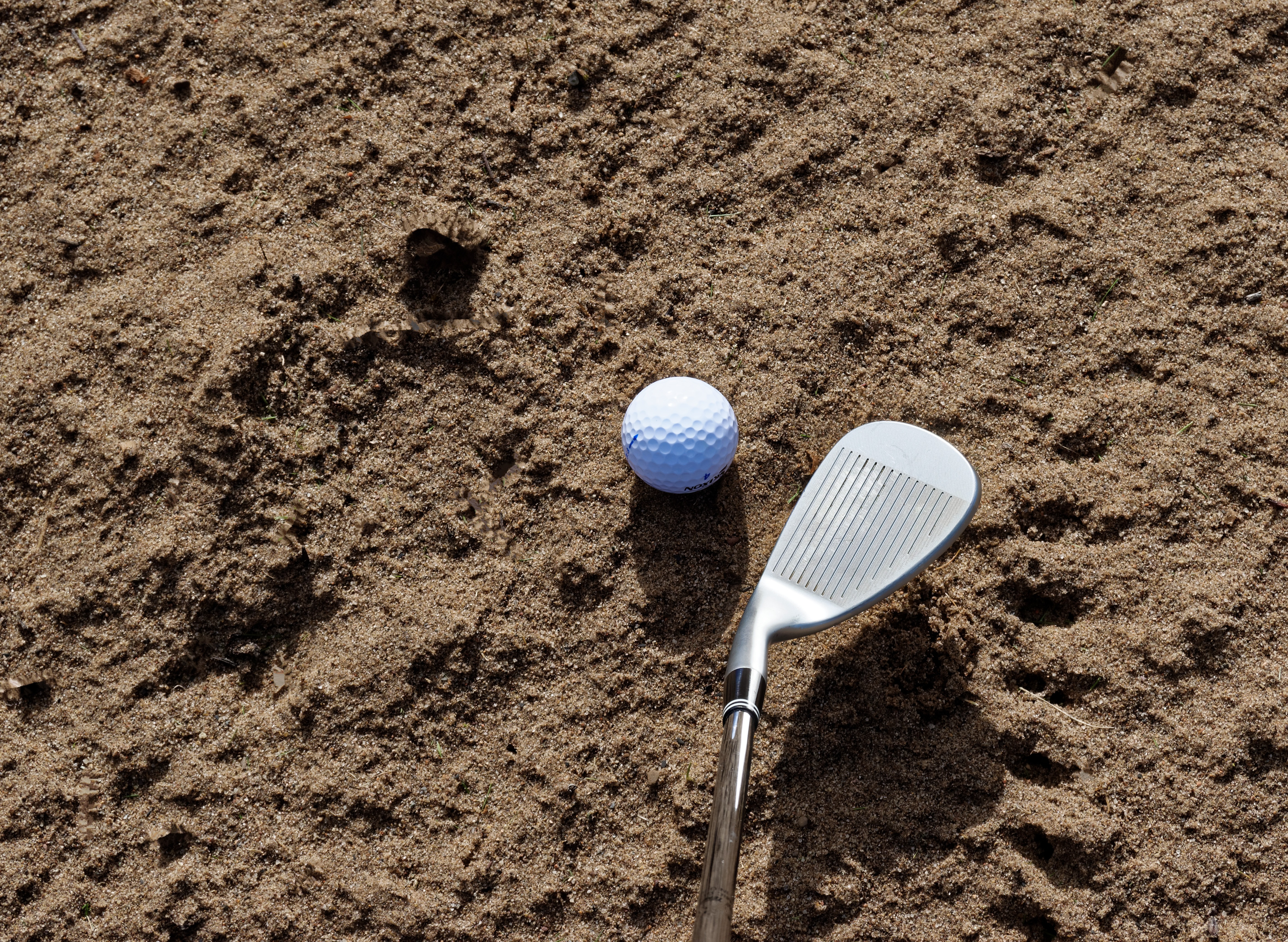 Sand trap ball and wedge image.